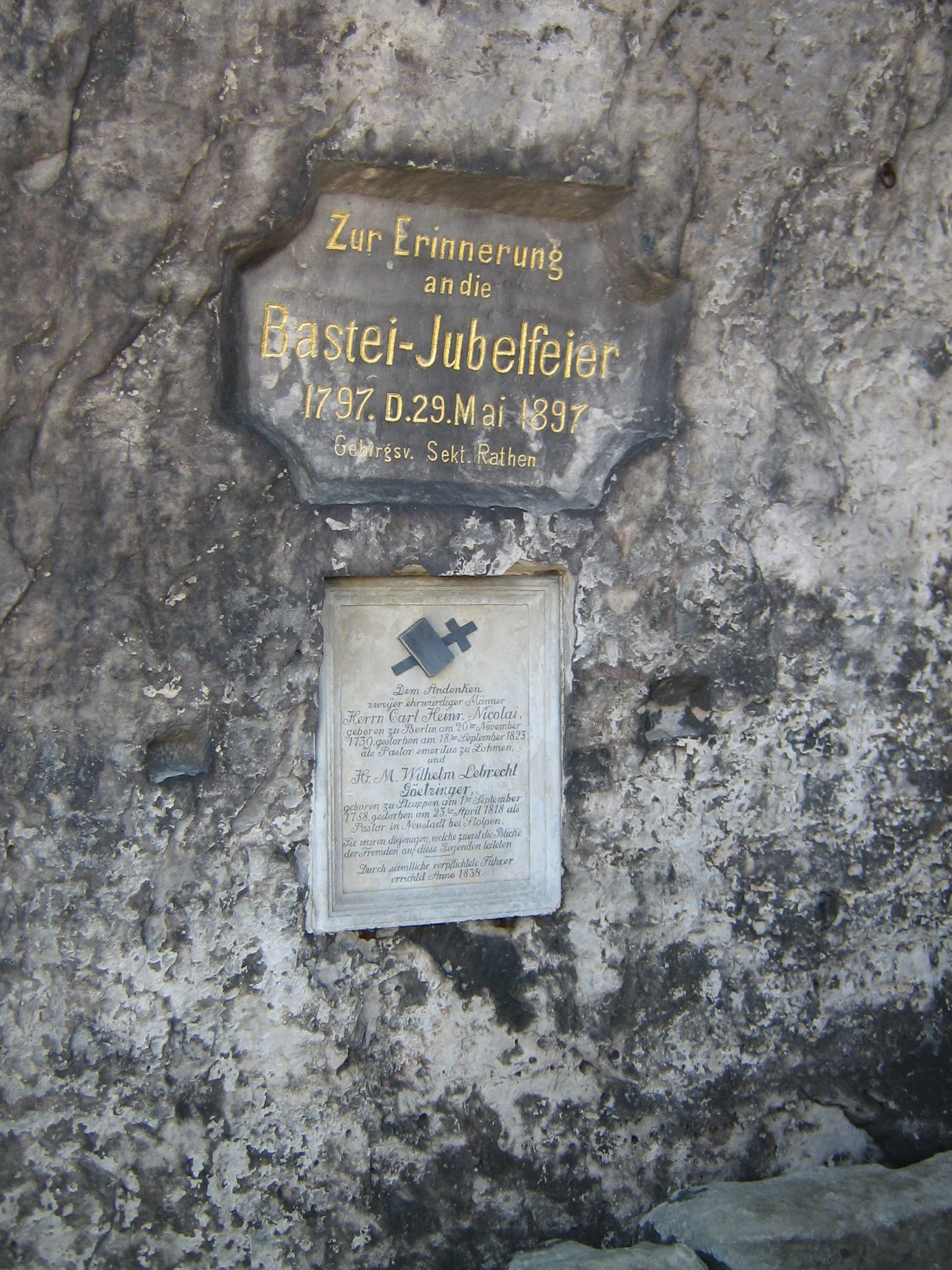 a memorial-sign from the Bastei-Bridge in the Saxon Switzerland